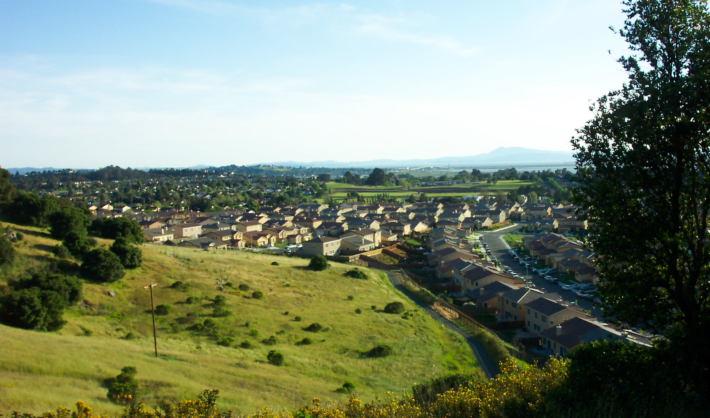 A photo of American Canyon, CA